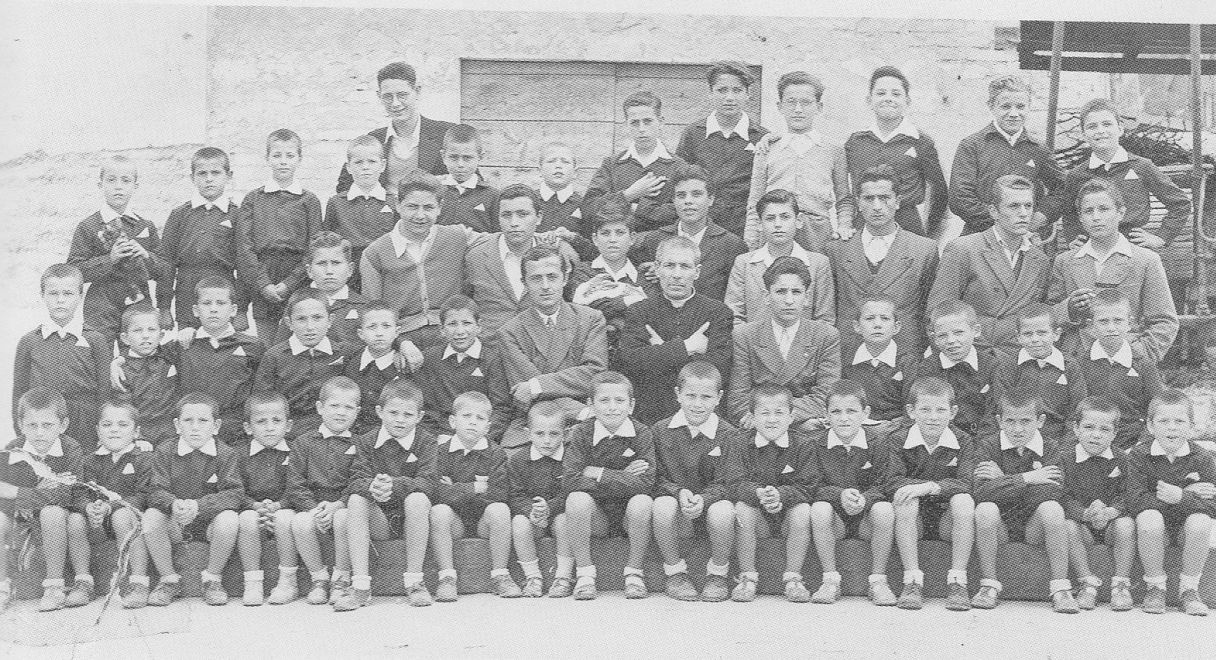 Picture of Don Baronio with the group of students of the Istituto Figli del Popolo